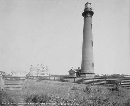 U.S. Coast Guard Archive Photo of Currituck Beach Lighthouse, Outer Banks, North Carolina